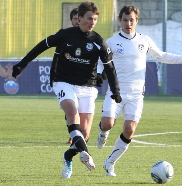 Yegor Tarakanov with FC Nizhny Novgorod.